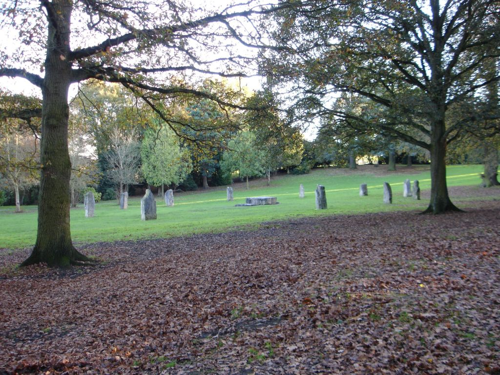 Author: SPicke01 A Photo of the Gorsedd circle in Acton Park, Wrexham